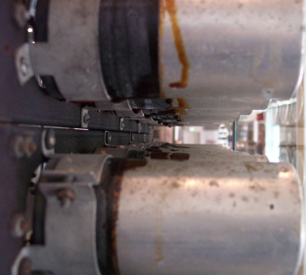 ENIAC Capacitors/Kondensatoren